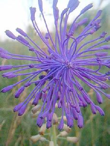 Muscari comosum, Panšťák (Panský kopec)